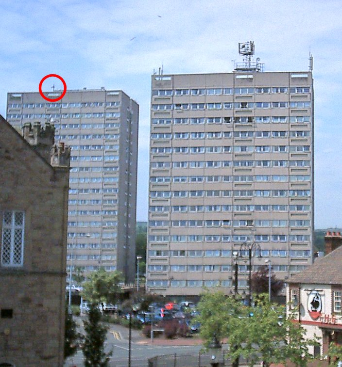 The approximate position of the Flint TV realy atop Bolingbroke Heights, Flint, North Wales is shown with a red circle. Photo taken from the ground. The transmitting log-periodic antennas can only be seen clearly from the other side of the building and preferably from height.